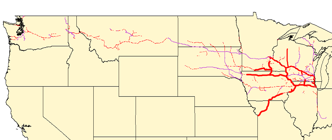 Map of the Chicago, Milwaukee, St. Paul and Pacific Railroad. Thick red lines indicate trackage still operated by CP Rail; purple lines indicate former MILW trackage now operated by other railroads; red dashed lines indicate abandoned track.